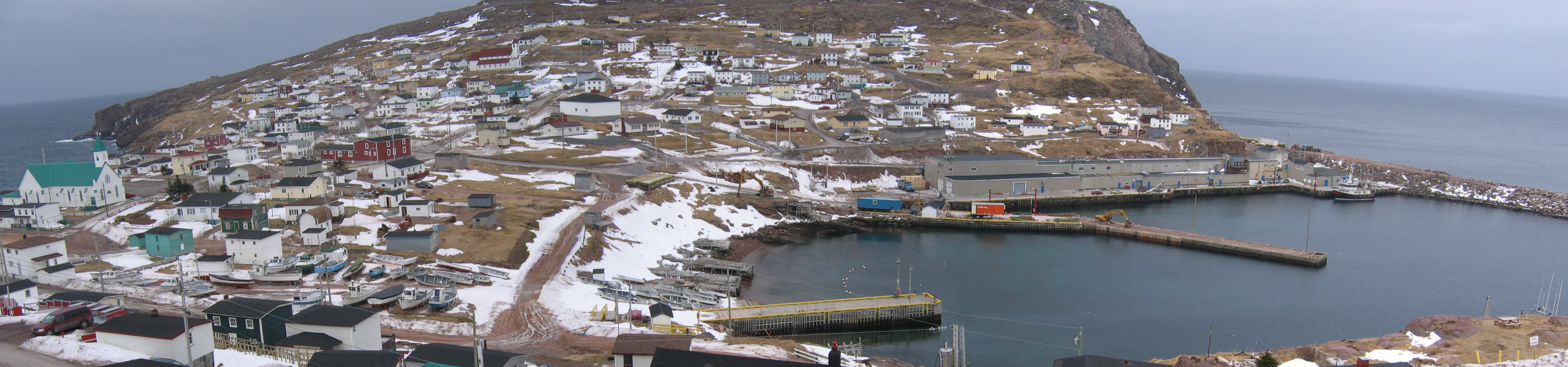 Stiched photographs of Bay de Verde taken from Blundon's Point, HJKeats, March 17, 2007